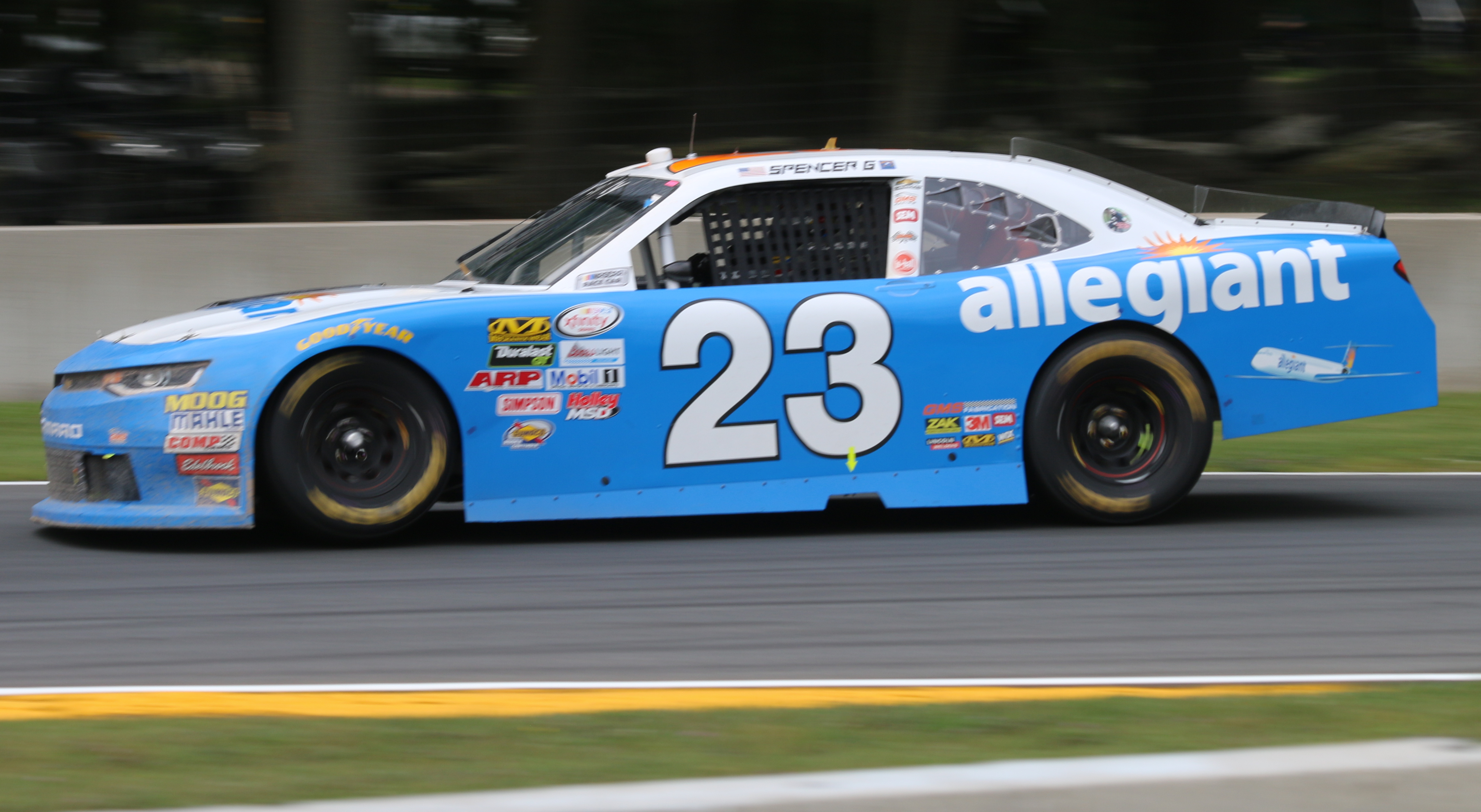 The Chevrolet Camaro of Spencer Gallagher at the NASCAR Xfinity Series Johnsonville 180.